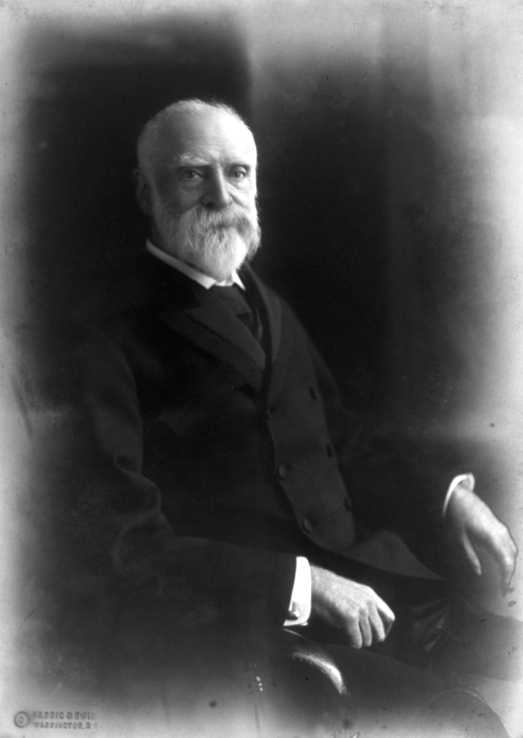 James Bryce, 1st Viscount Bryce